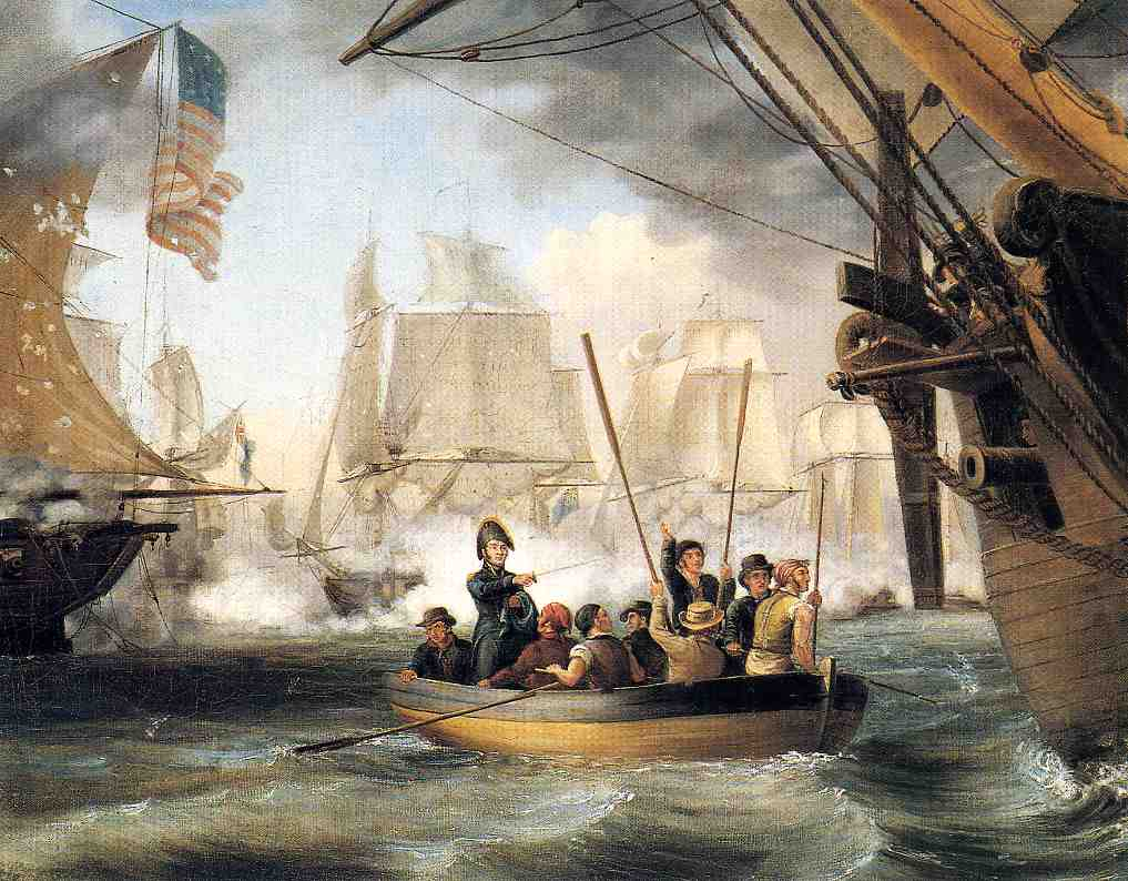 Commodore Perry Leaving the "Lawrence" for the "Niagara: at the Battle of Lake Erie